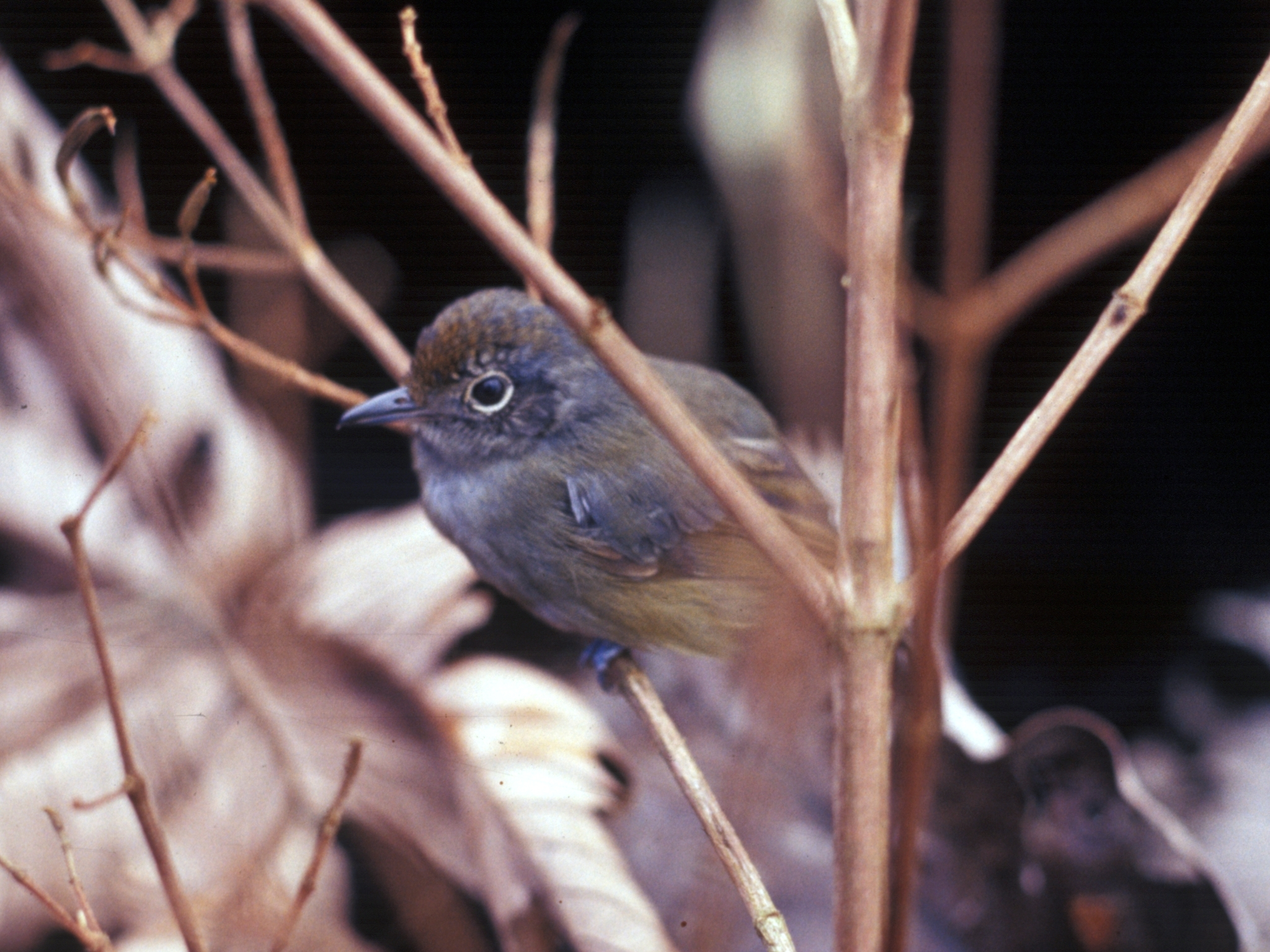 Plain Antvireo in Ecuador. Originally mistakenly identified as Schizoeaca griseomurina.